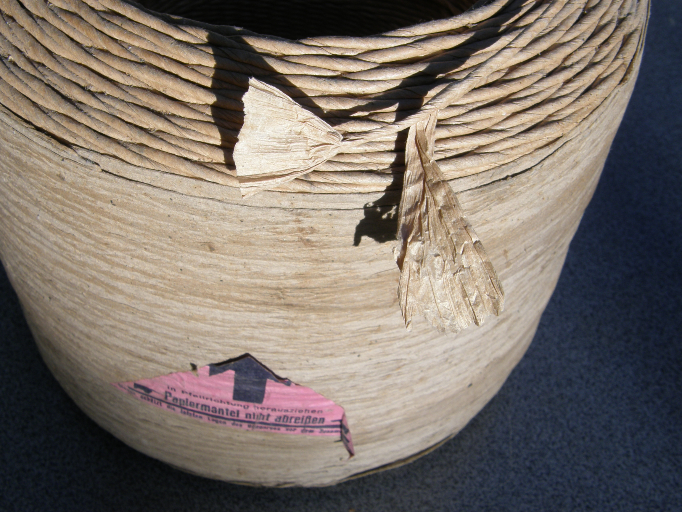 paper-rope